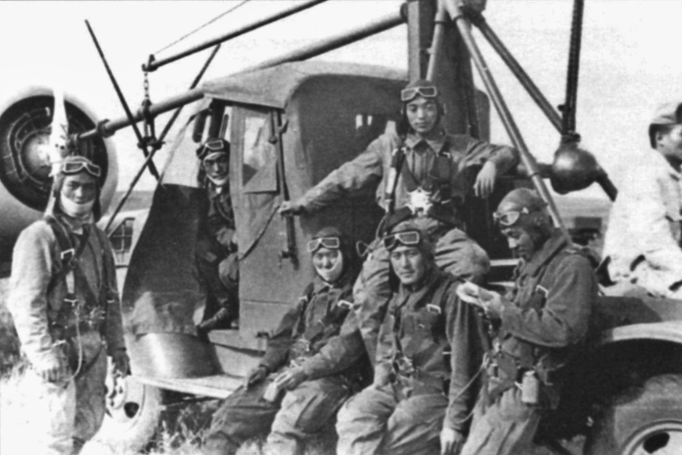 Khalkhyn Gol, 1939. Japanese pilots